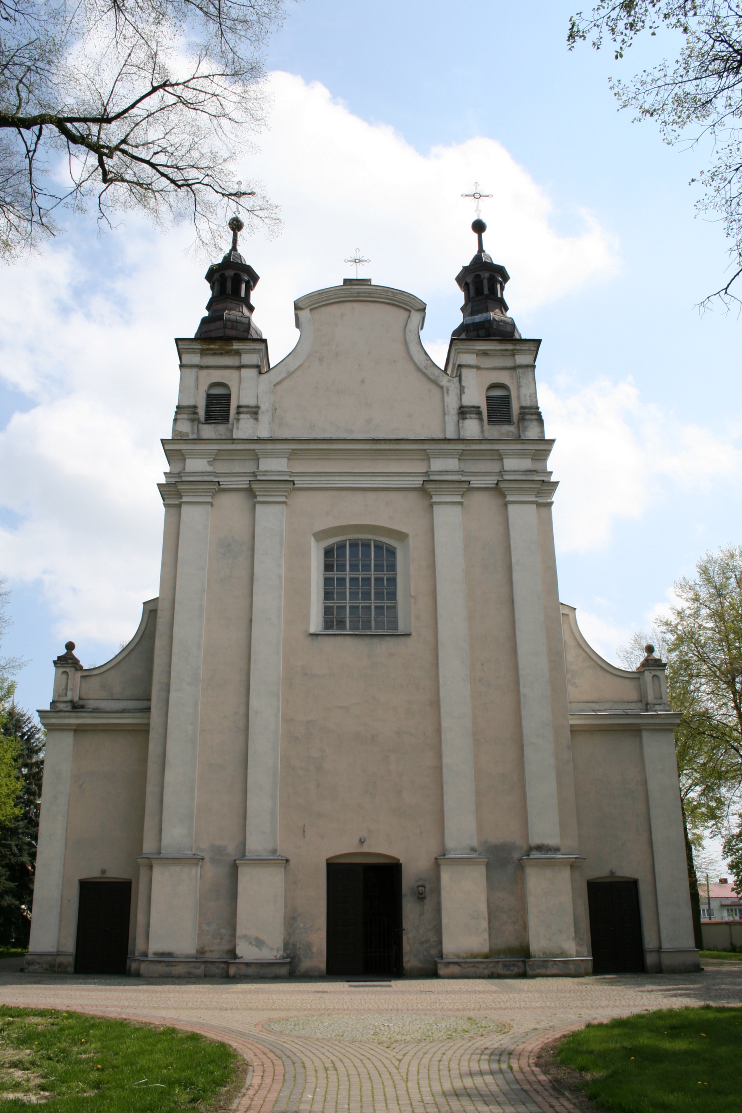 Church Saint Nicholas in Krześlin